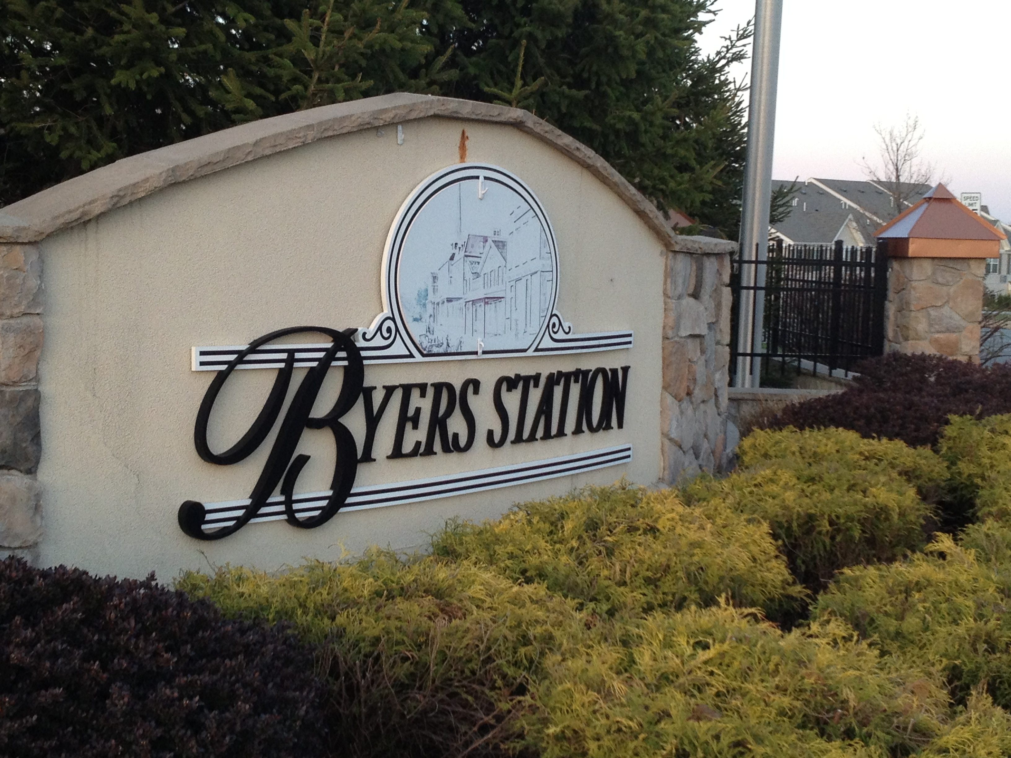 Byers Station sign